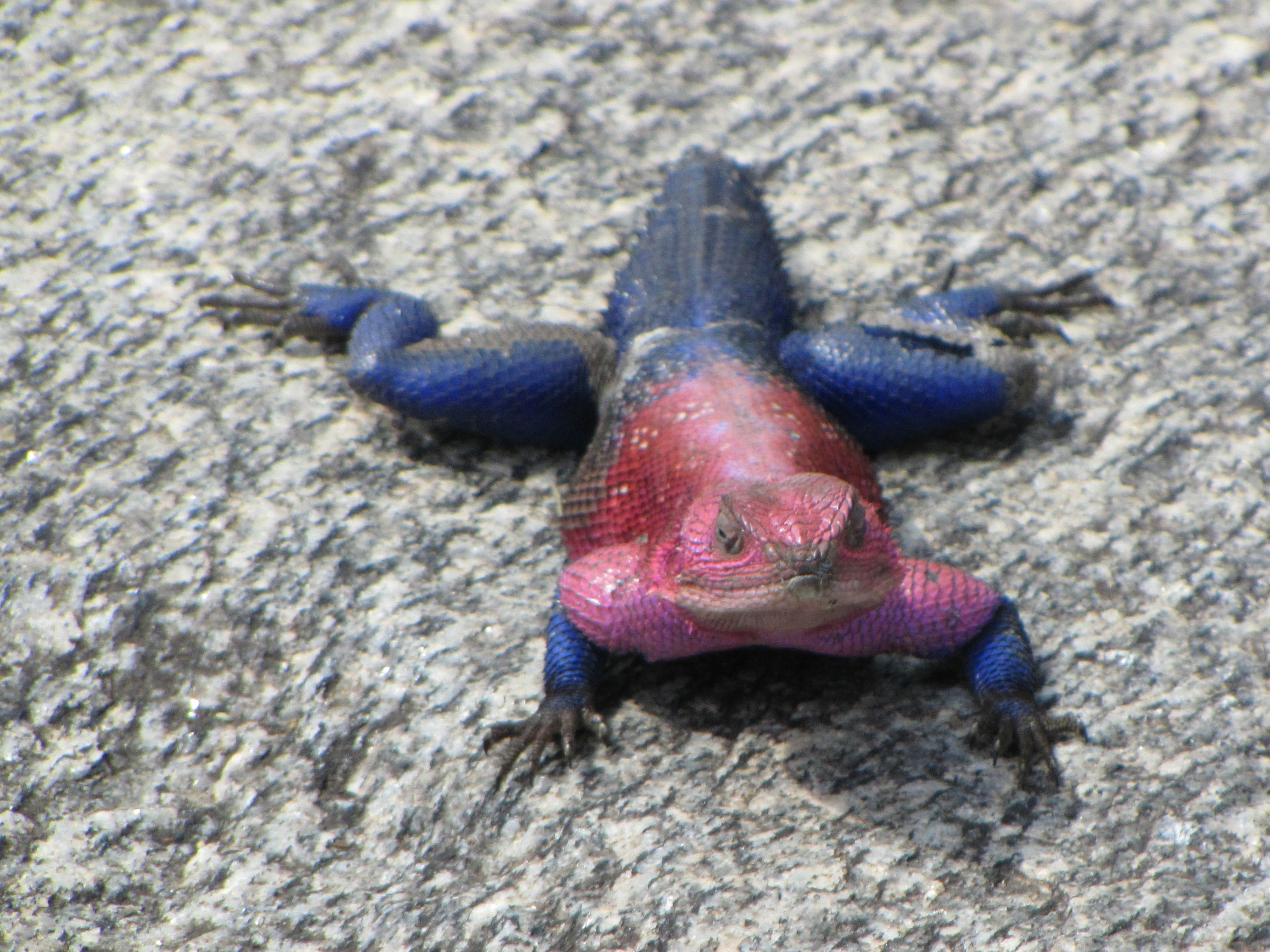 Mwanza Flat-Headed Rock Agama (Agama mwanzae), Serengeti, Tanzania